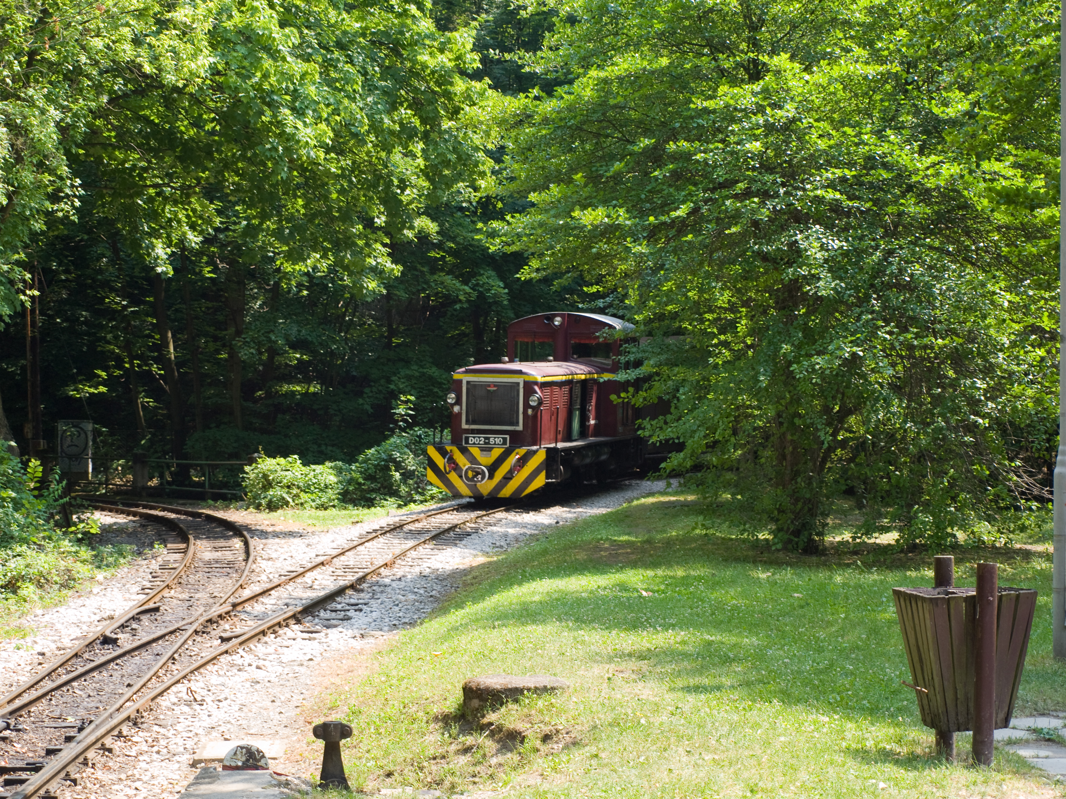 Narrow gauge railway to Lillafüred, Miskolc